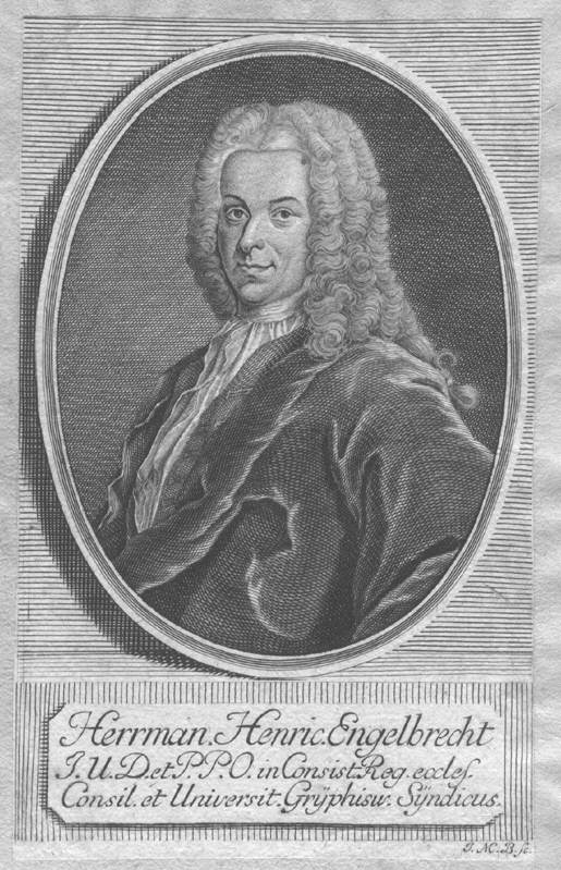 Portrait of Hermann Heinrich von Engelbrecht (1709-1760) Copper engraving, image size 142x89 mm; frontispiece in: Zuverläßige Nachrichten von dem gegenwärtigen Zustande, Veränderung und Wachsthum der Wissenschafften. 24. Teil. 1741.